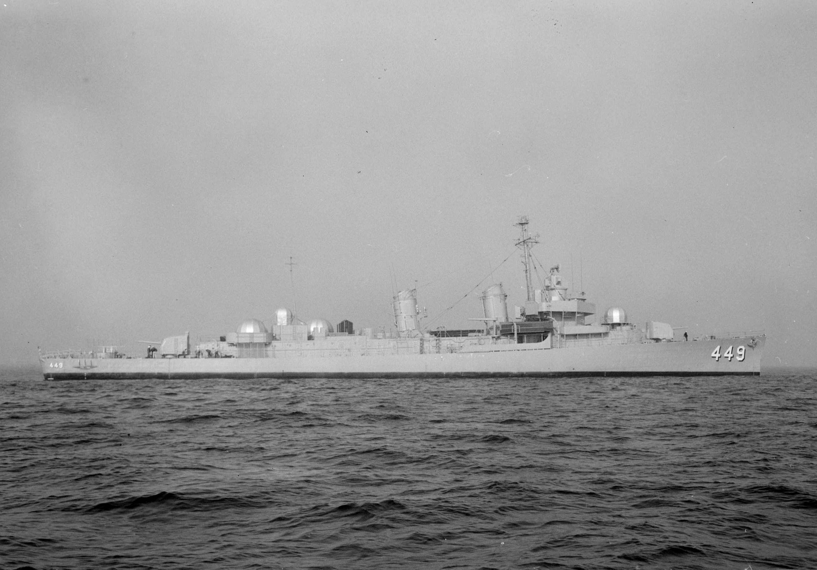 The U.S. Navy destroyer USS Nicholas (DDE-449) underway on 16 February 1950. NIcholas was on her way to be reactivated. She was recommissioned on 19 February 1951.